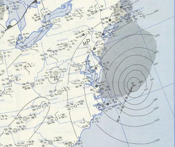 An October 5, 1951 surface weather map depicting Hurricane How (1951) off the U.S. coast heading out to sea.